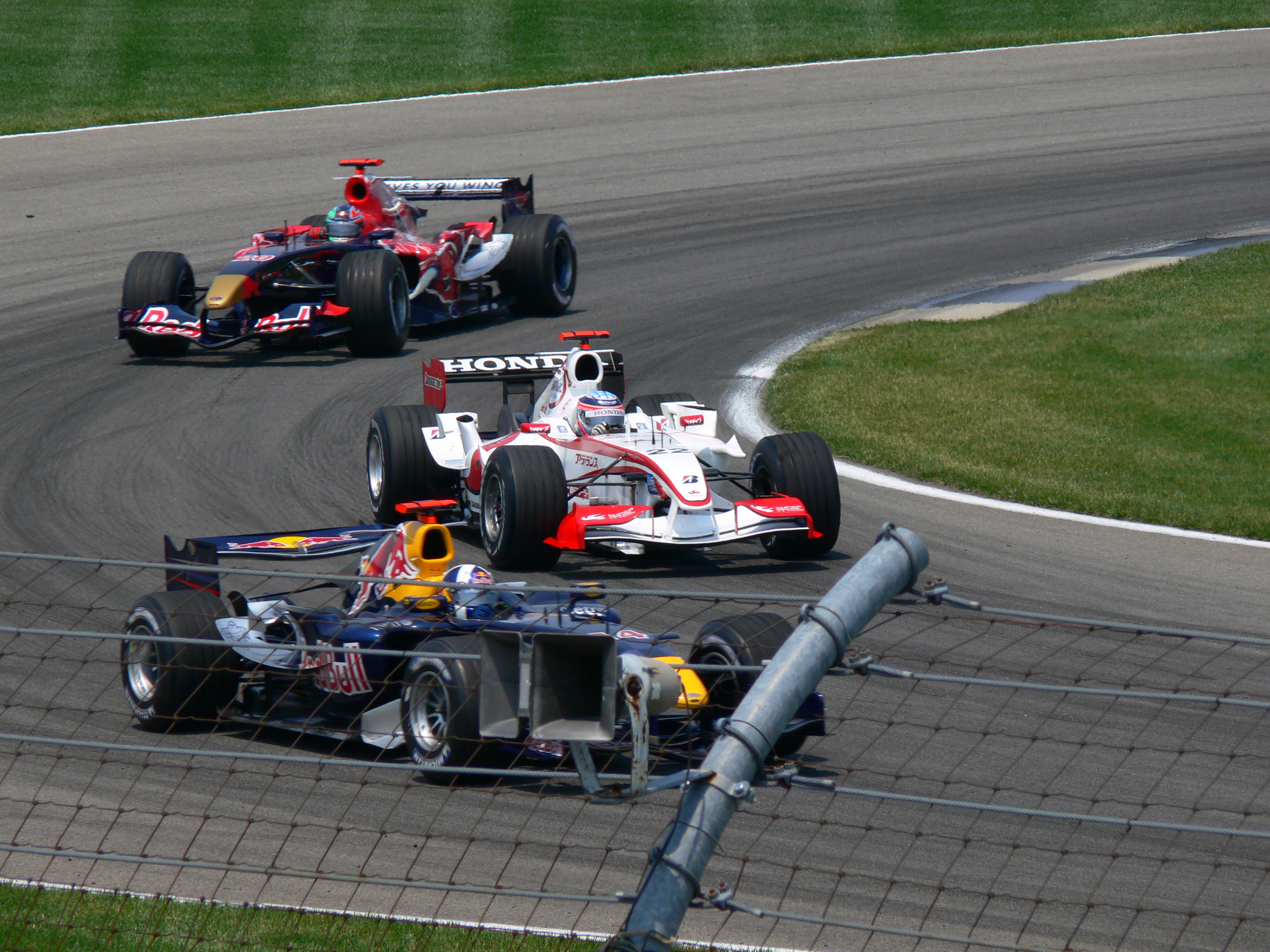 David Coulthard, driving his Red Bull Racing Ferrari, being followed by the Super Aguri Honda of Takuma Sato and the Scuderia Toro Rosso Cosworth of Vitantonio Liuzzi at the 2006 United States Grand Prix.